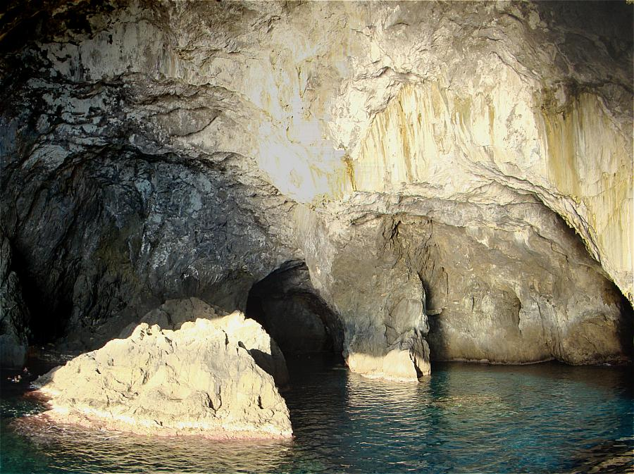 The cave of Hytra, a small uninhabited islet to the south of Kythira. Compare it to the size of the swimmers at the bottom left of the photo.